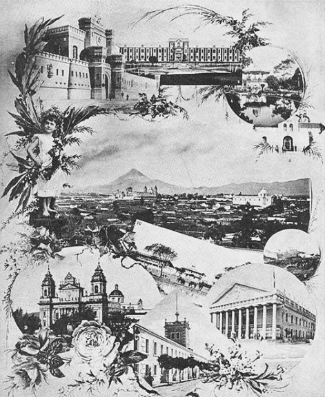 1896 Guatemala City picture collage